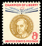 US stamp honoring Ernst Reuter